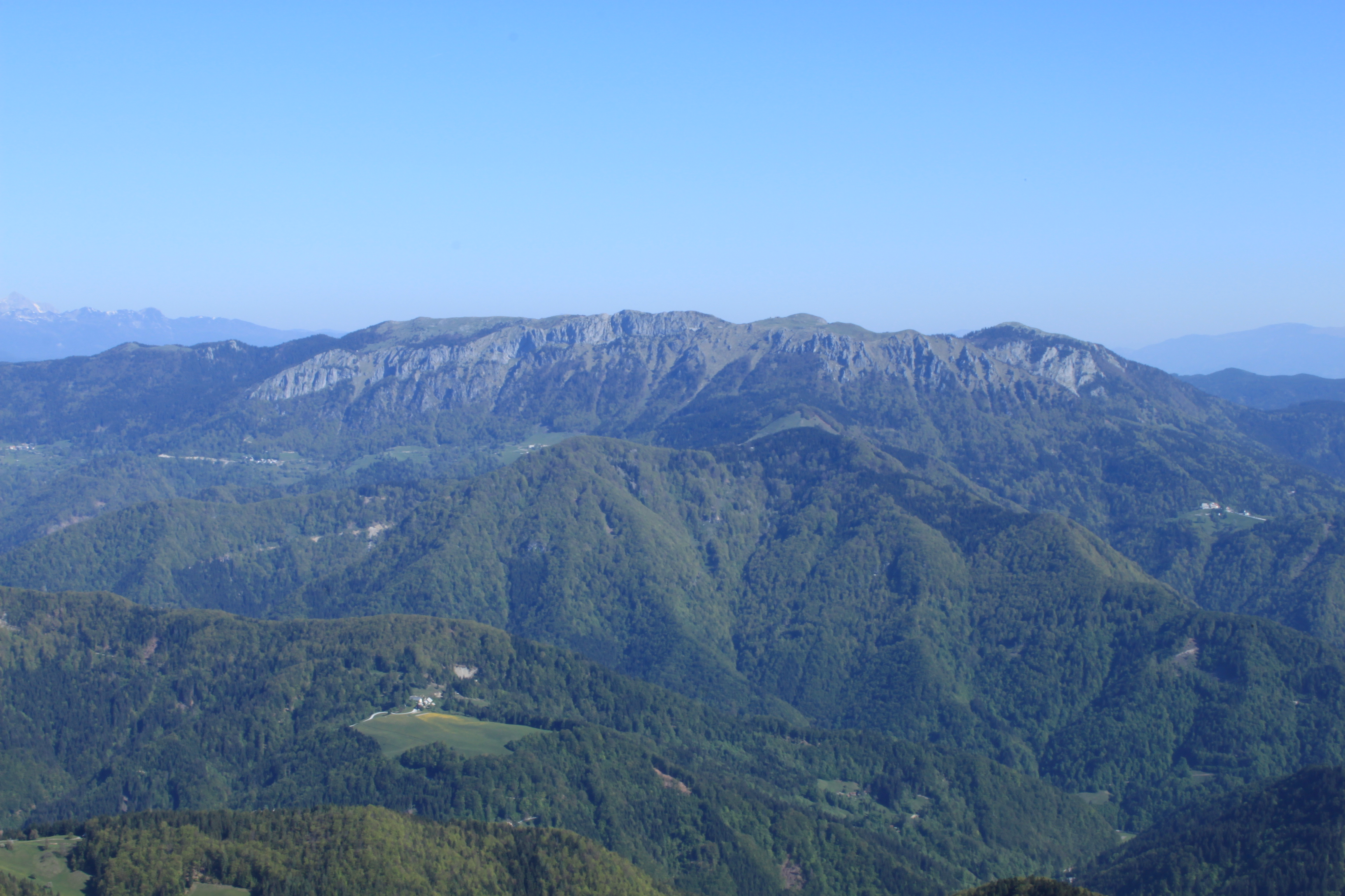 Mt. Ratitovec (1,672 m), southern side, from Blegoš, Slovenia.